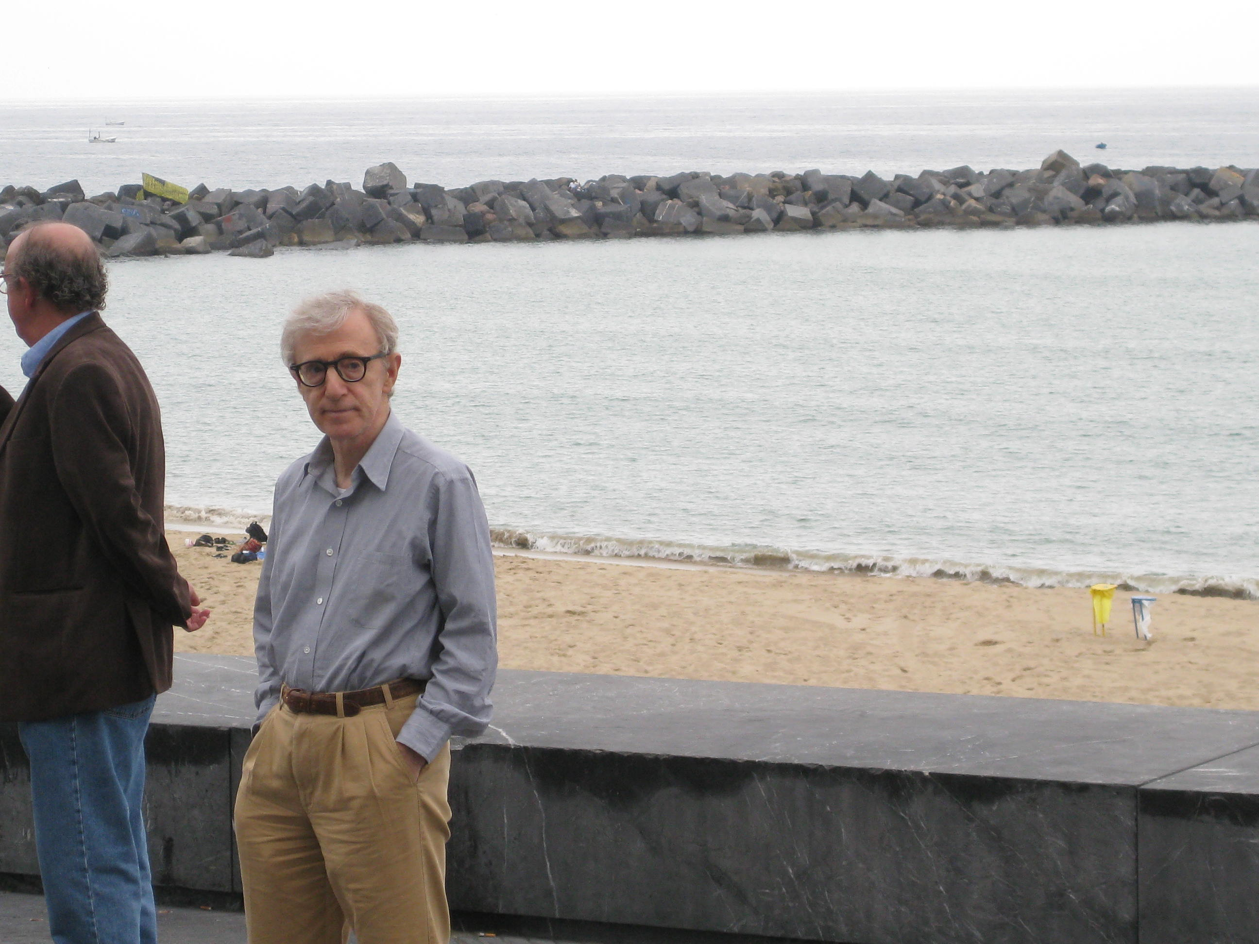 Woody Allen at San Sebastian Filmfestival 2008 presenting his movie "Vicky Cristina Barcelona"